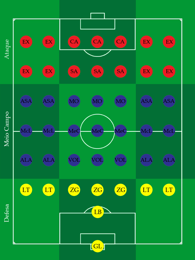 A soccer field with all positions